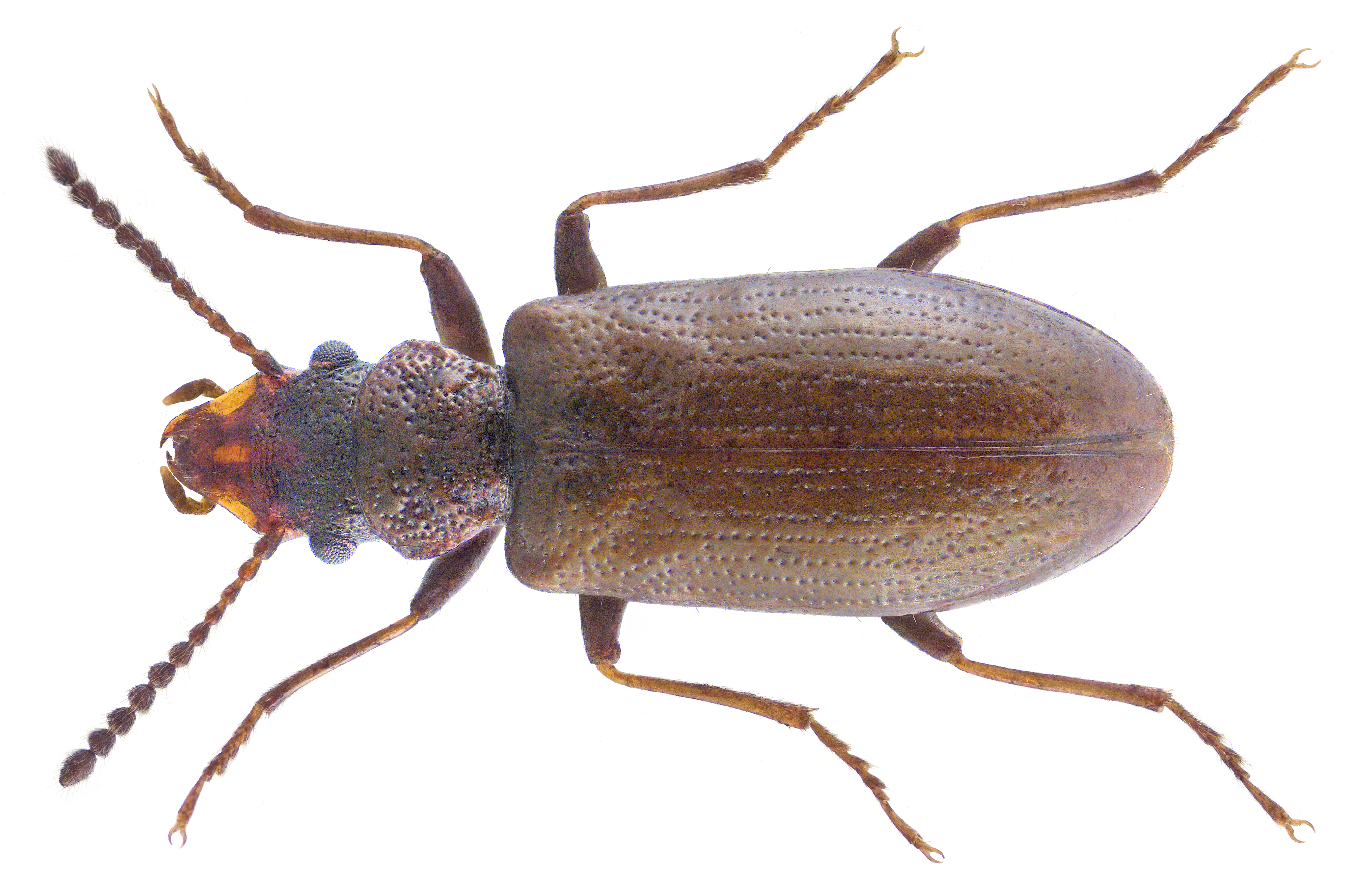 Rabocerus gabrieli (Gerhardt, 1901) Family: Salpingidae Size: 4.0 mm (3.0 to 4.0 mm) Distribution: North Europe, Central Europe Ecology: The beetles live underneath bark of Scolytidae and their larvae Location: England, Aviemore leg.det. P.Harwood, 20.XI.1944 Coll. Oxford University Museum of Natural History Photo: U.Schmidt, 2018